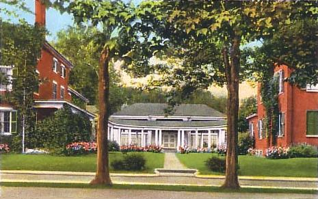 The Woodman Institute Museum, Dover, NH; from a c. 1920 postcard. Opened in 1916 as a natural science, local history and art museum.